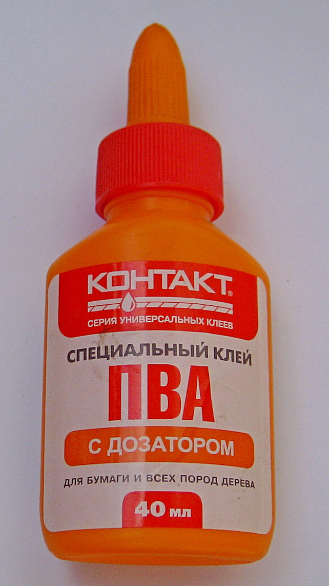 PVA glue